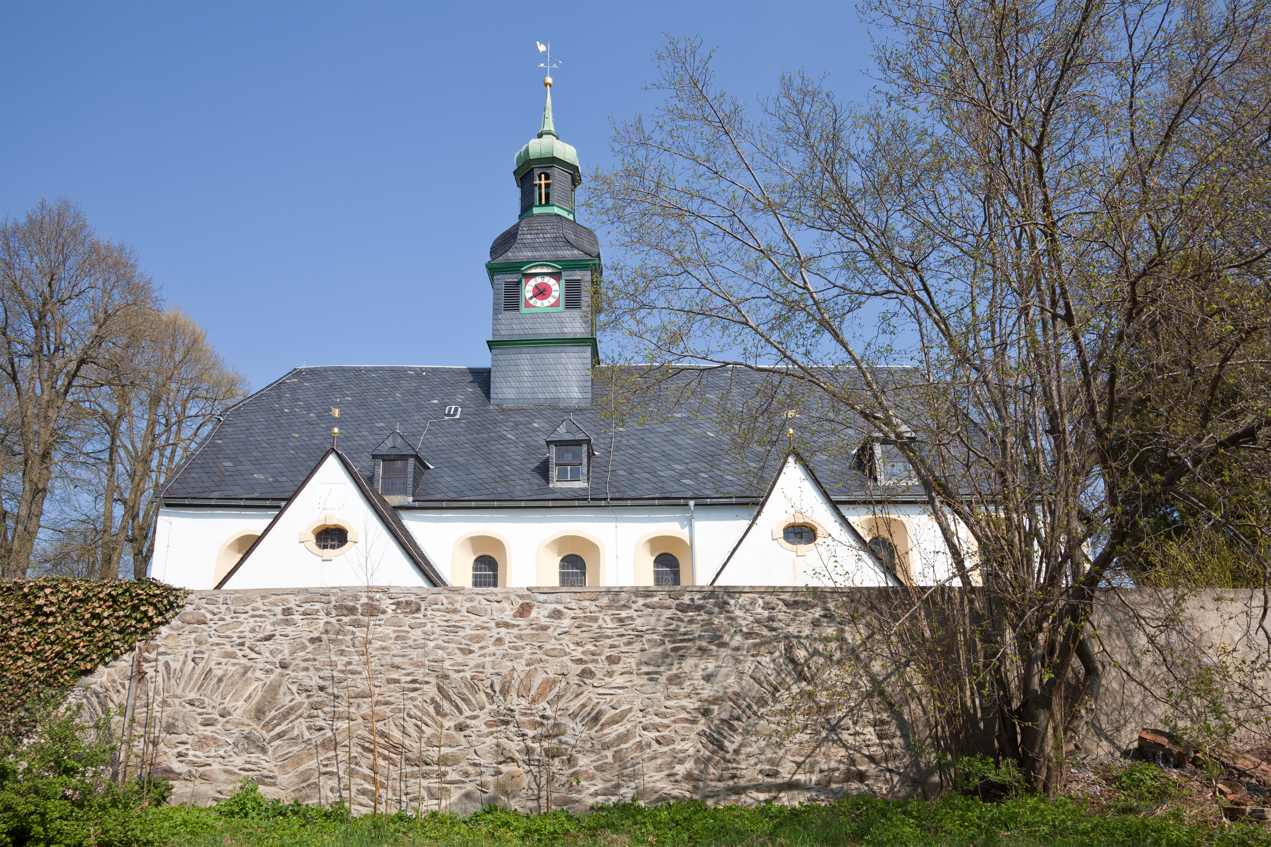 Helbigsdorf (Mulda), Saxony, church